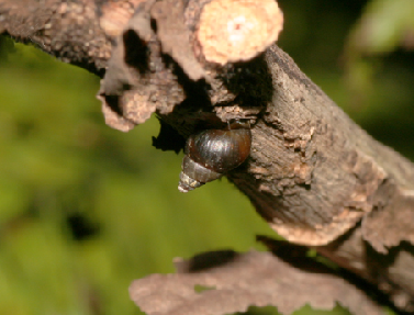 Photo of live Fukuia multistriata resting on a tree branch.